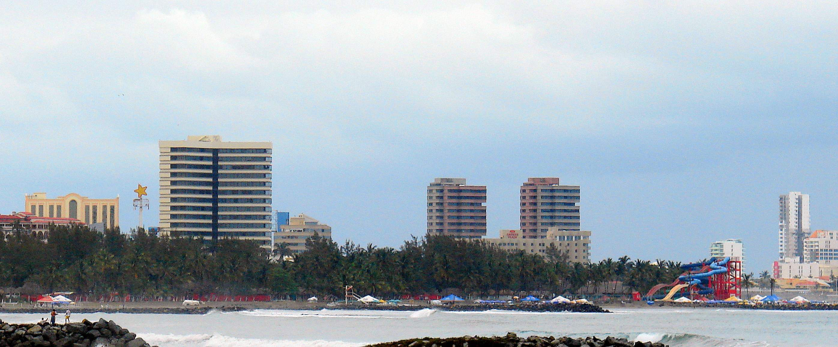 Image of Boca del Rio, Veracruz, Mexico; view of Miguel Aleman boulevard.